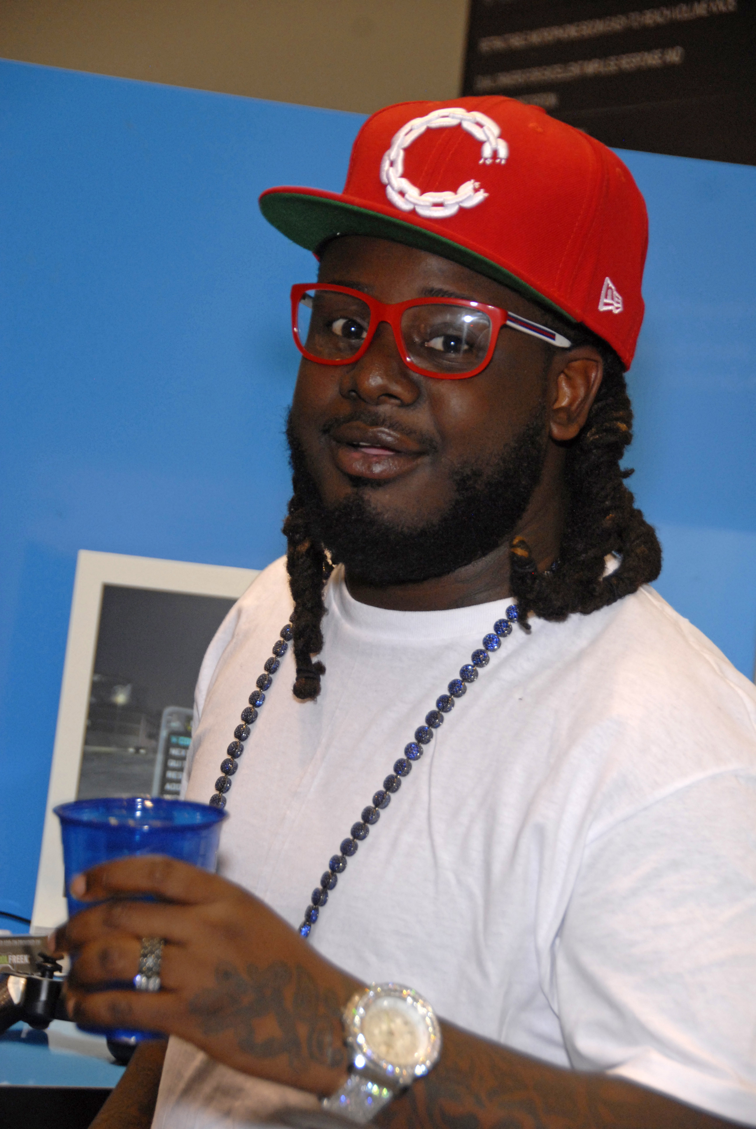 T-Pain at E3, Los Angeles, CA on June 7, 2011 - Photo by Glenn Francis of